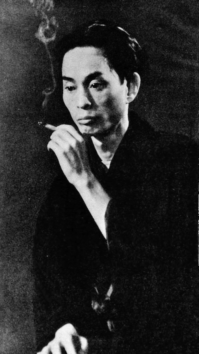 Yasunari Kawabata (1899-1972). A picture during the time he was living at Sakuragi-cho in Ueno (上野桜木町).